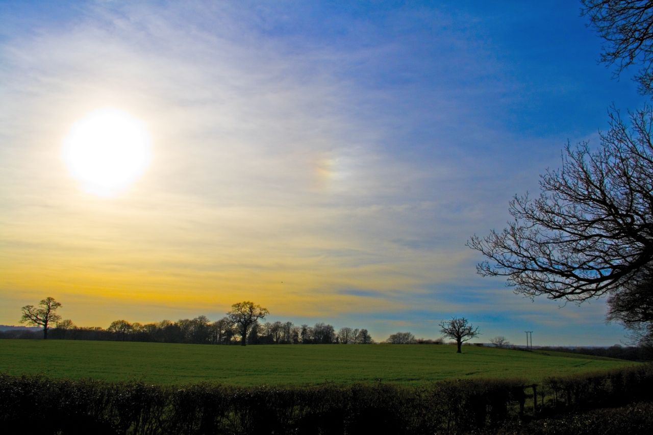 Never point your camera at the sun!